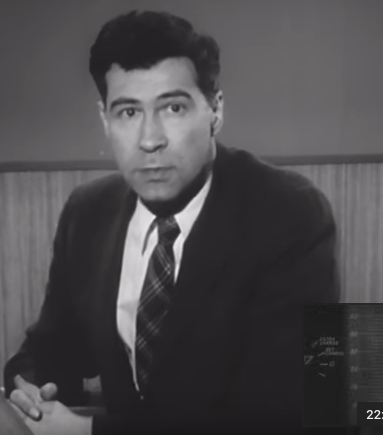 Filming 1959 PSSC Millikan Experiment